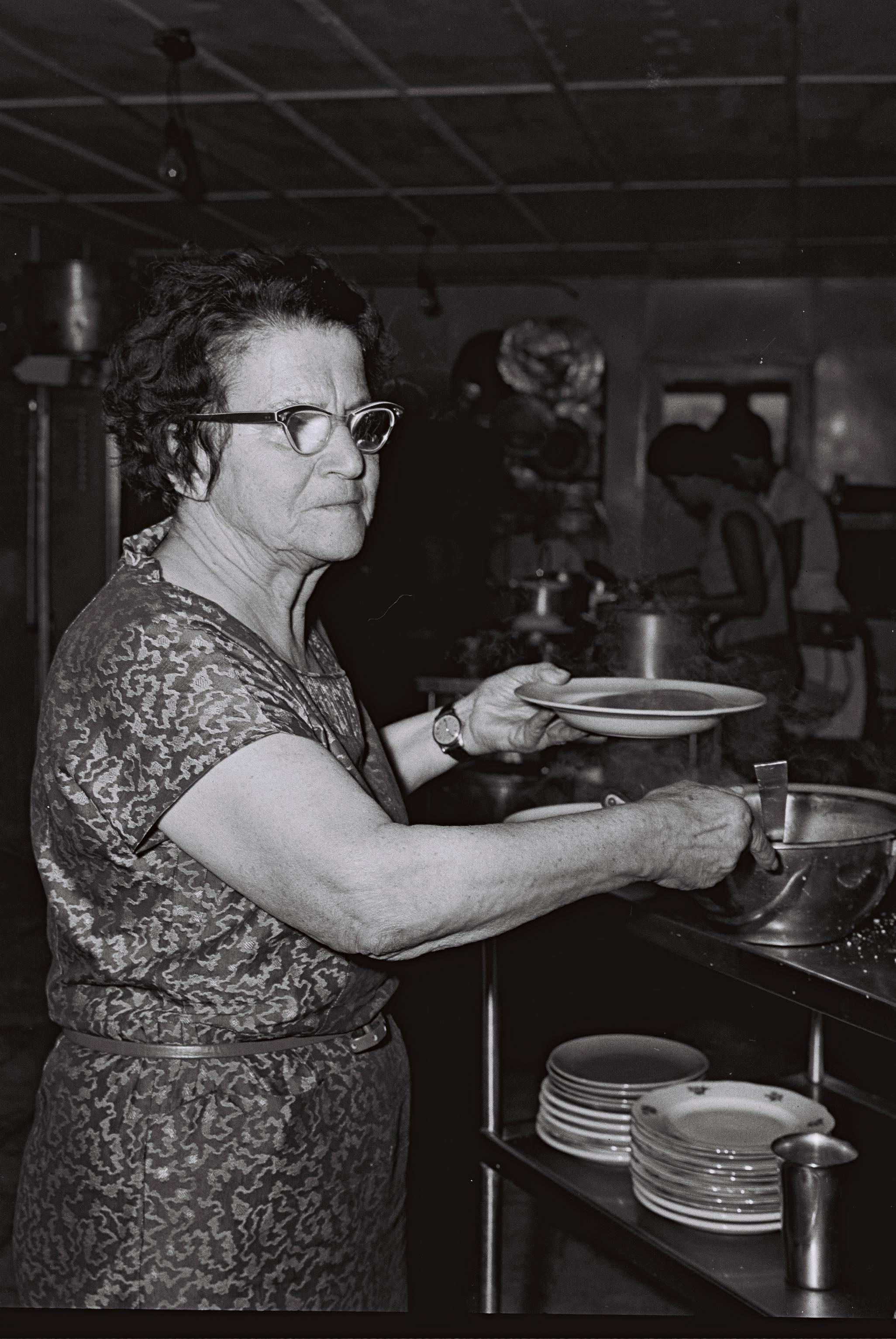 MRS. PAULA BEN GURION IN THE DINNING ROOM OF SDEH BOKER.